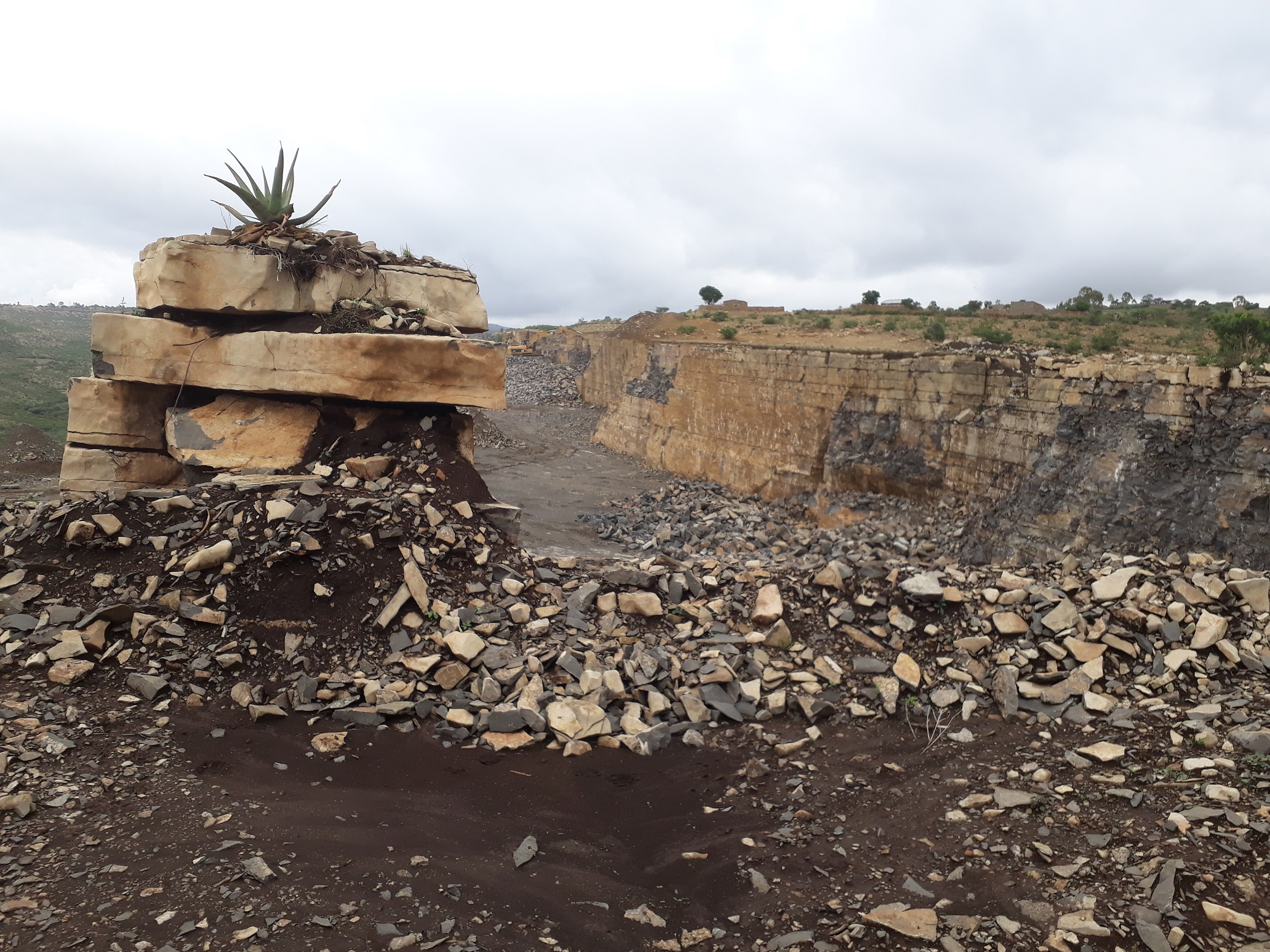 May Qarano quarry in Antalo Limestone. Dogu'a Tembien. Here the stone is used in a crusher to prepare gravel.